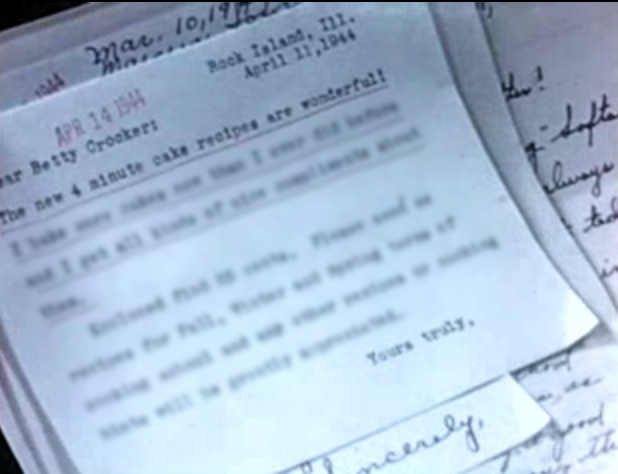 Letters to Betty Crocker to be answered by the General Mills Home Service Department, screen shot from the film 400 Years in 4 Minutes, Prelinger Archives